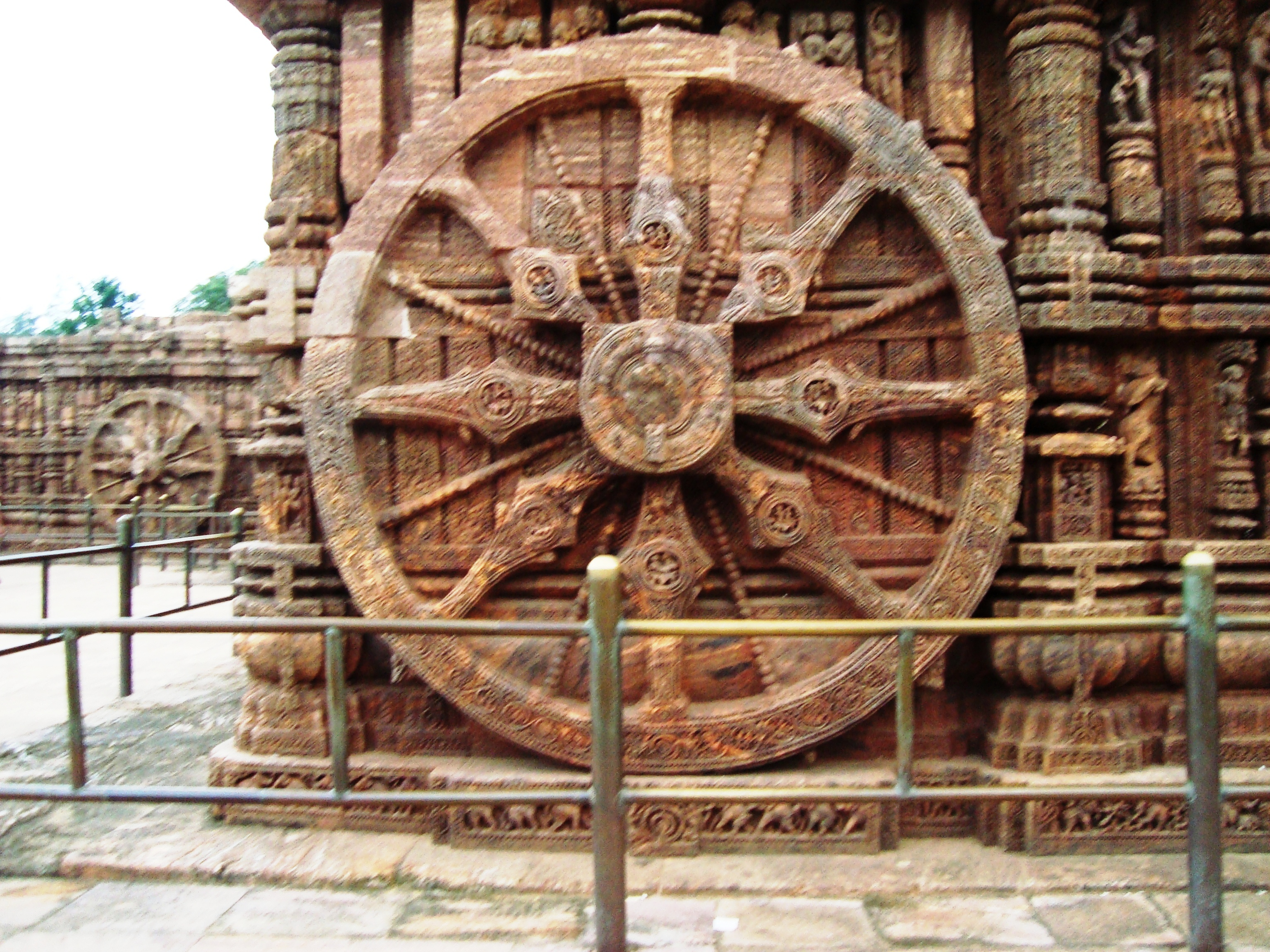 Konark Sun Temple, built in c. AD 1250, during the reign of the Eastern Ganga King Narasimhadeva-I (AD 1238-1264), to enshrine an image of Sun (Arka), the patron deity of the place. The entire complex was designed in the form of a huge chariot drawn by seven spirited horses on twelve pairs of exquisitely carved wheels. The sanctum symbolises the majestic stride of the Sun-god and marks the culmination of the Orissan architectural style.